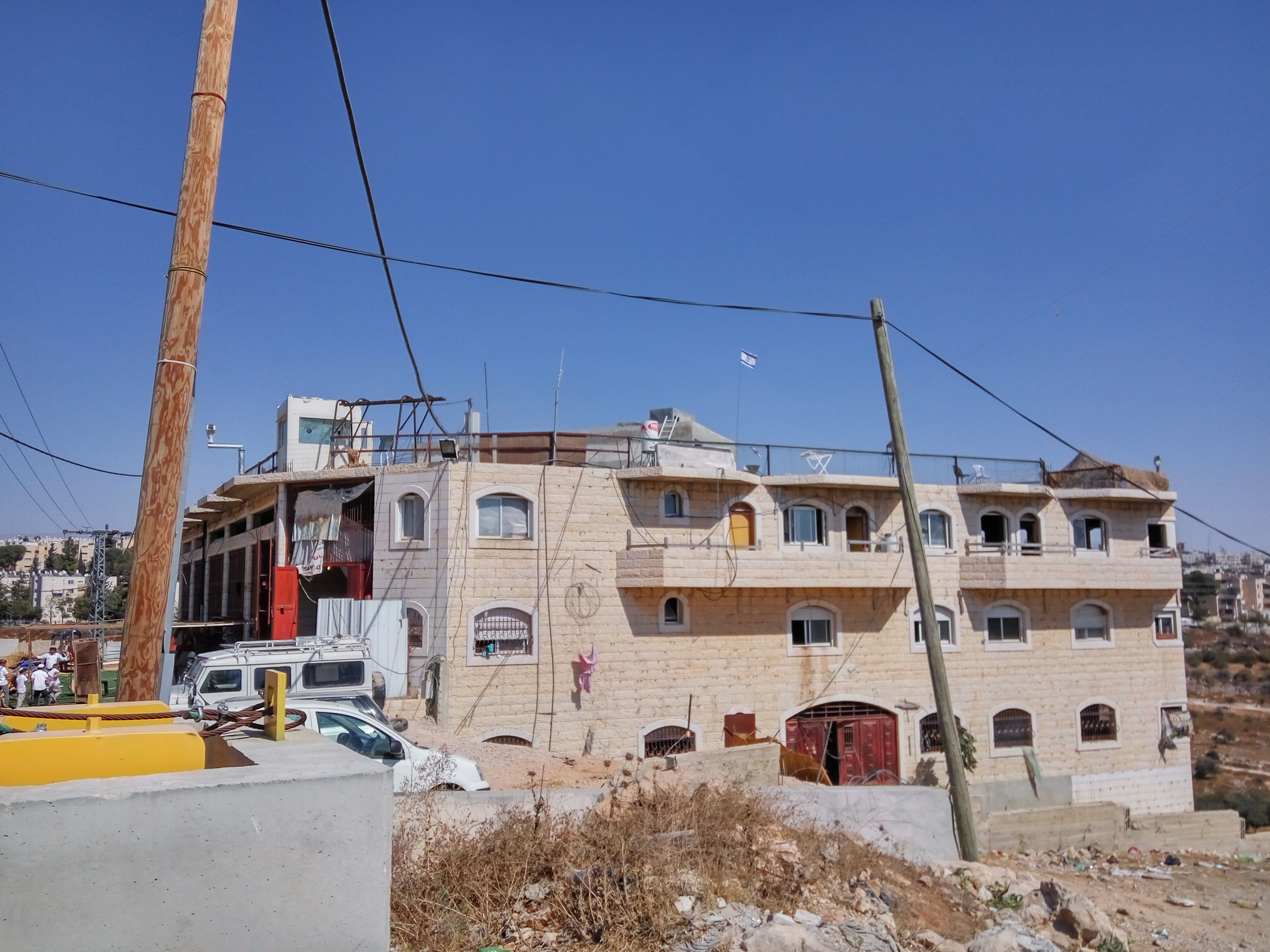 Children near Rajabi House, Hebron